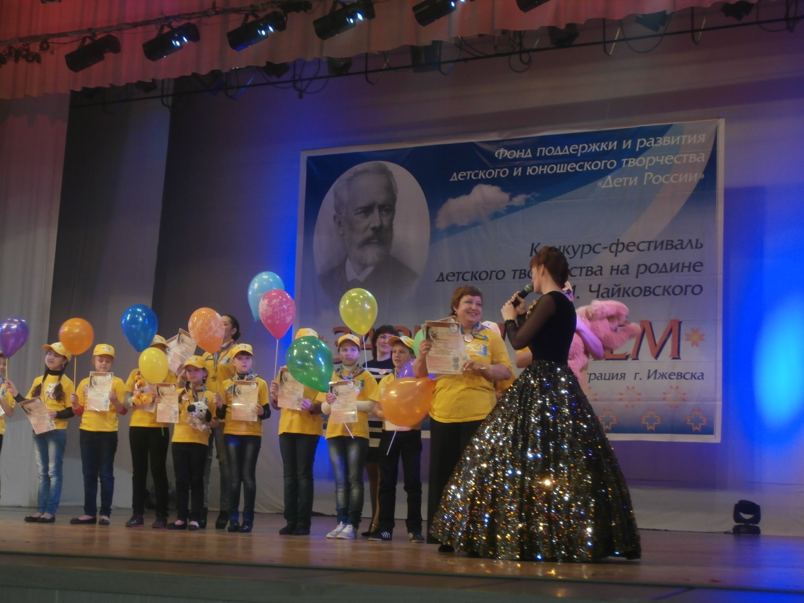 Russian-wide art festival "On homeland of Pyotr Chaykovski"